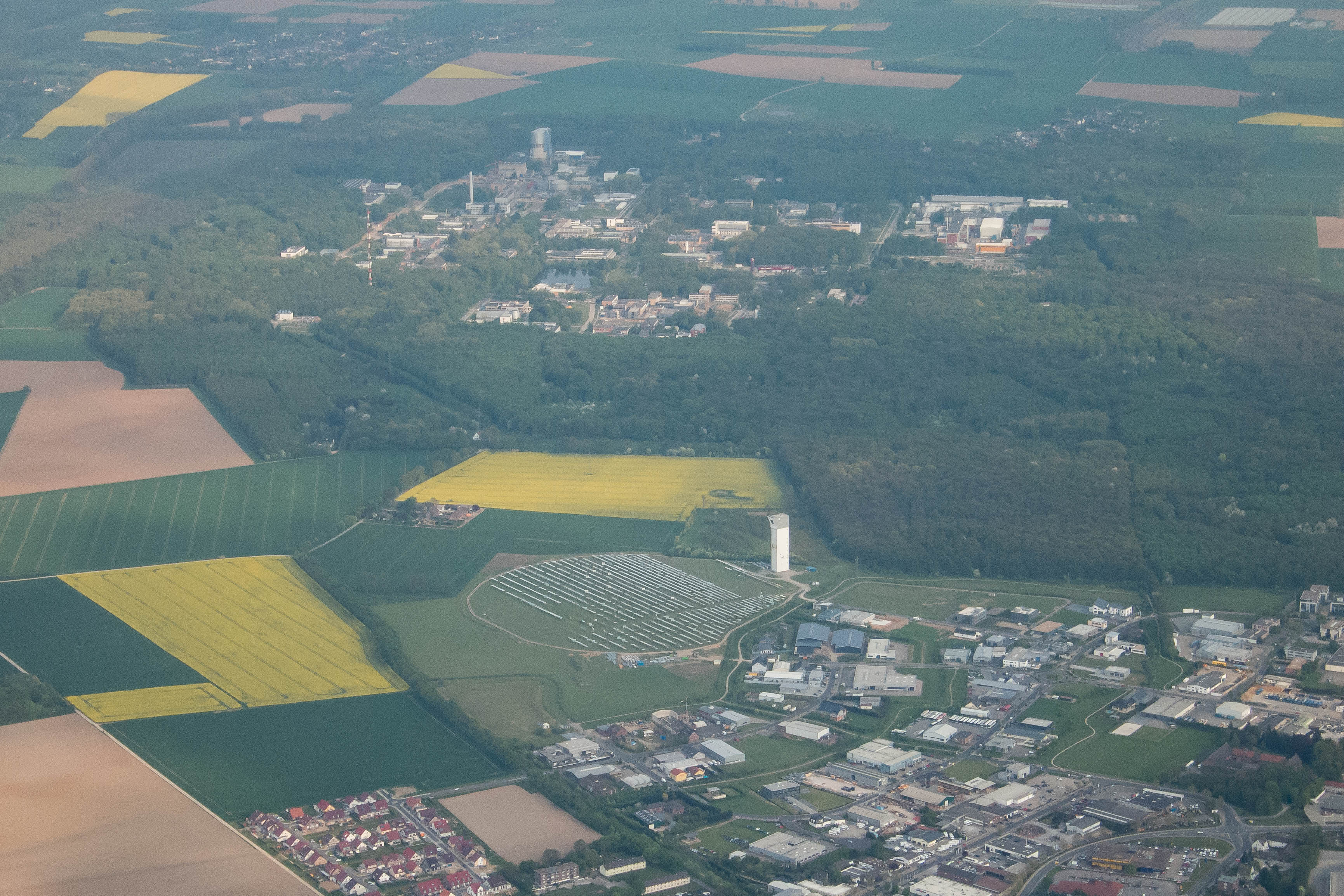 Solar Tower and Research Centre Jülich